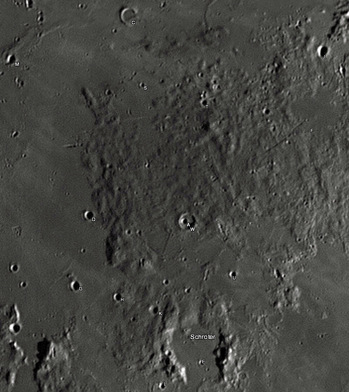 Schroter lunar crater as seen from Earth with satellite craters labeled